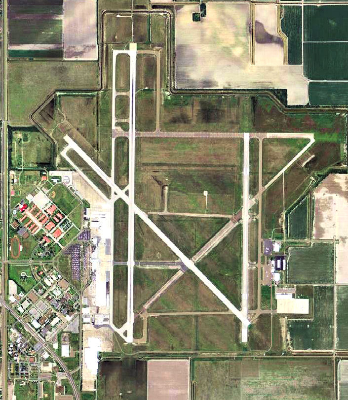 USGS digital orthophoto of Valley International Airport in Texas